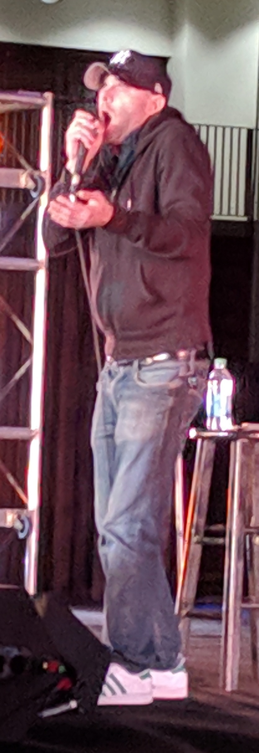 2019 FreezeFest at the Rochester Institute of Technology